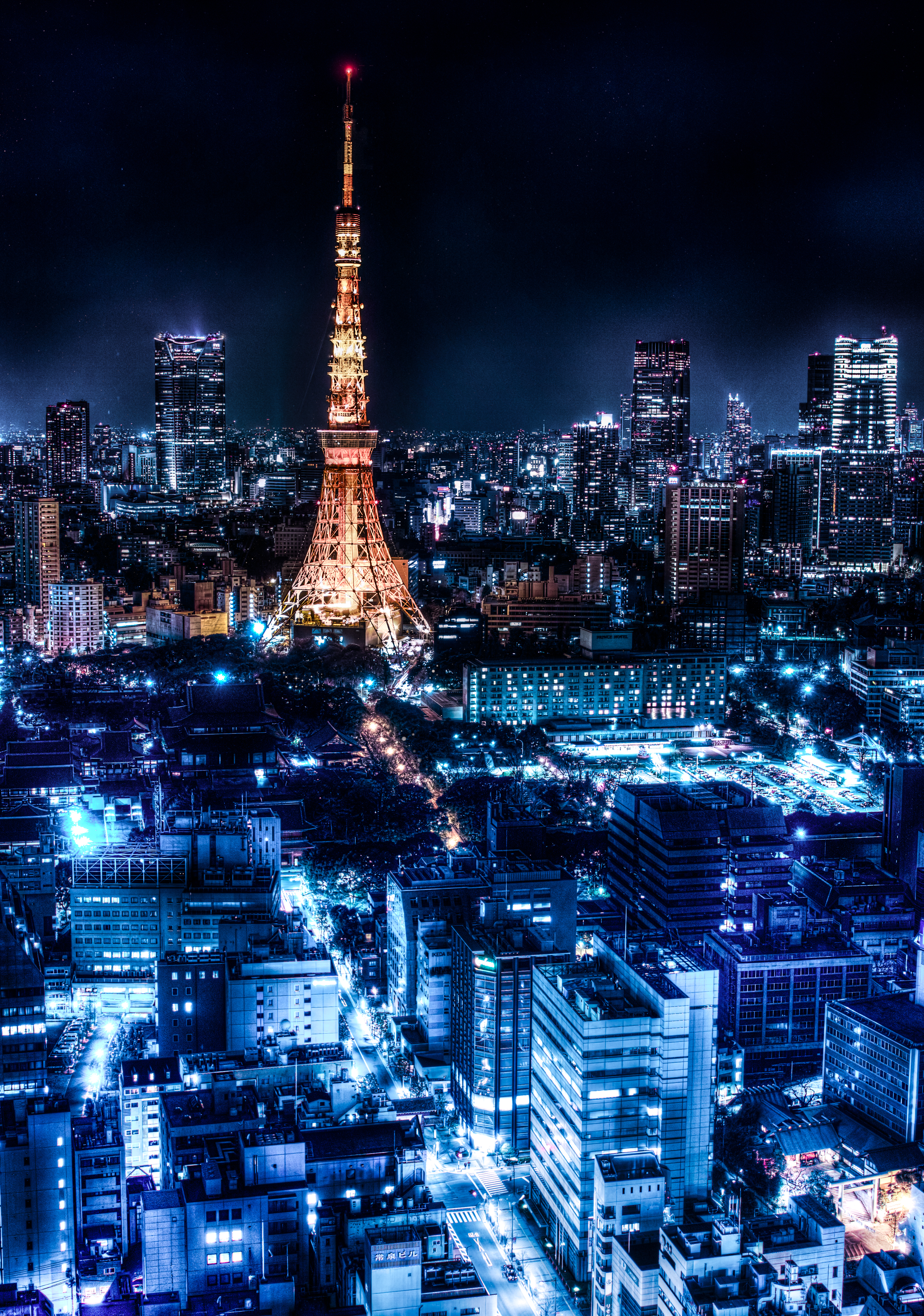 Tokyo Tower as seen from the observation deck of the World Trade Center, Hamamatsu-cho, Tokyo, Japan